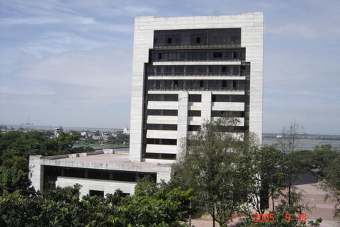 mist_academic_building